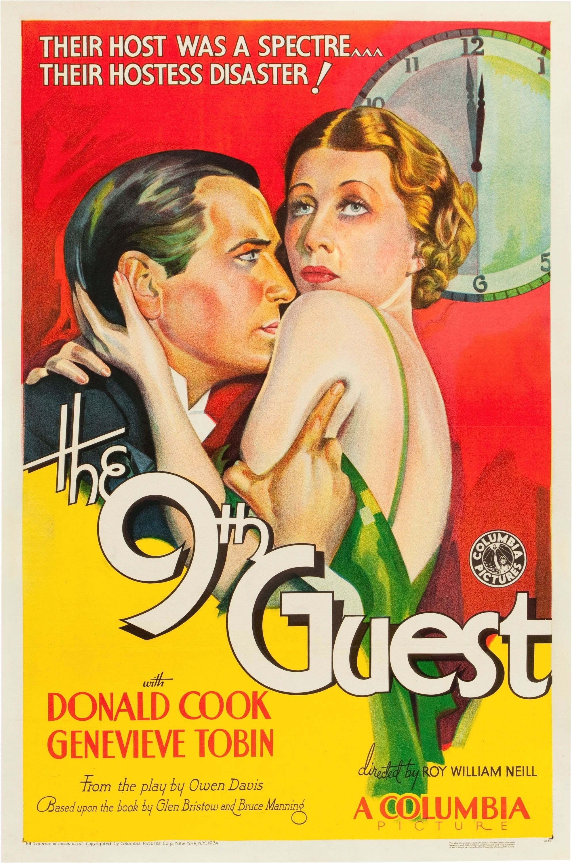 Poster artwork for The 9th Guest (1934).